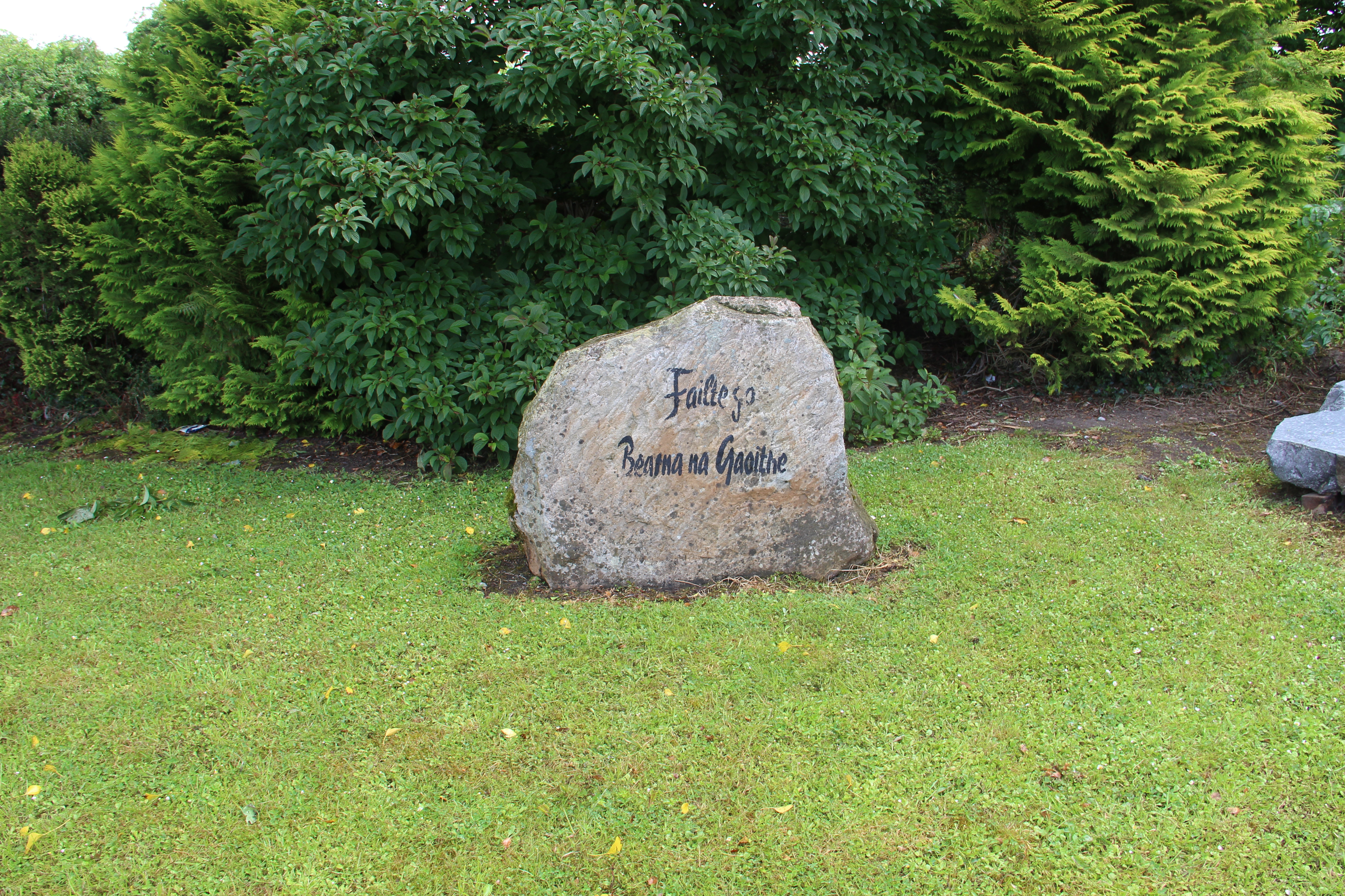 Photo of Bearna na Gaoithe/Windgap sign, Co. Kilkenny "Welcome to Ardmore".